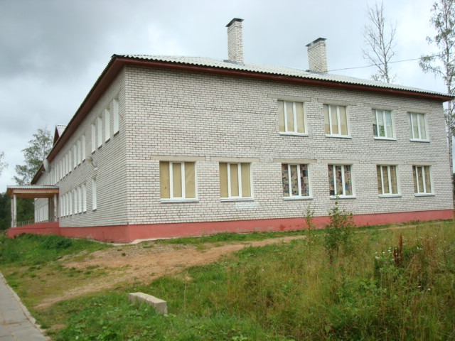 SckolaDSC00154